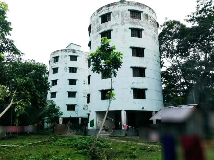 Destiny,cyclone Sidr shelter